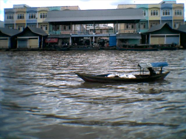 Licensing